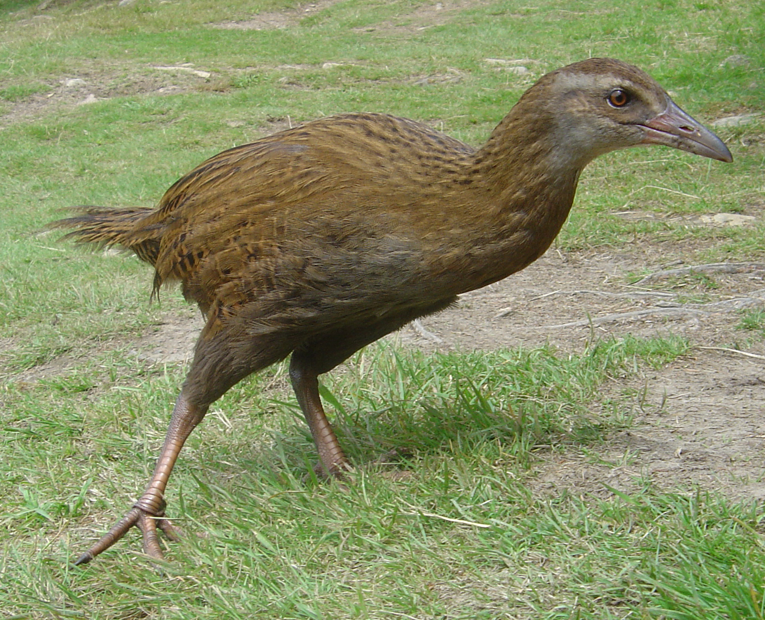 A weka (Gallirallus australis) photographed on the Queen Charlotte track in the Marlborough Sounds in New Zealand.